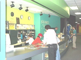 STARS: Scitrek Amateur Radio Society picure of W4WOW the Amateur Radio Station the group operated inside of SciTrek The Science & Technology Museum of Atlanta. Sad to say the museum is now permitly closed as of 2004.